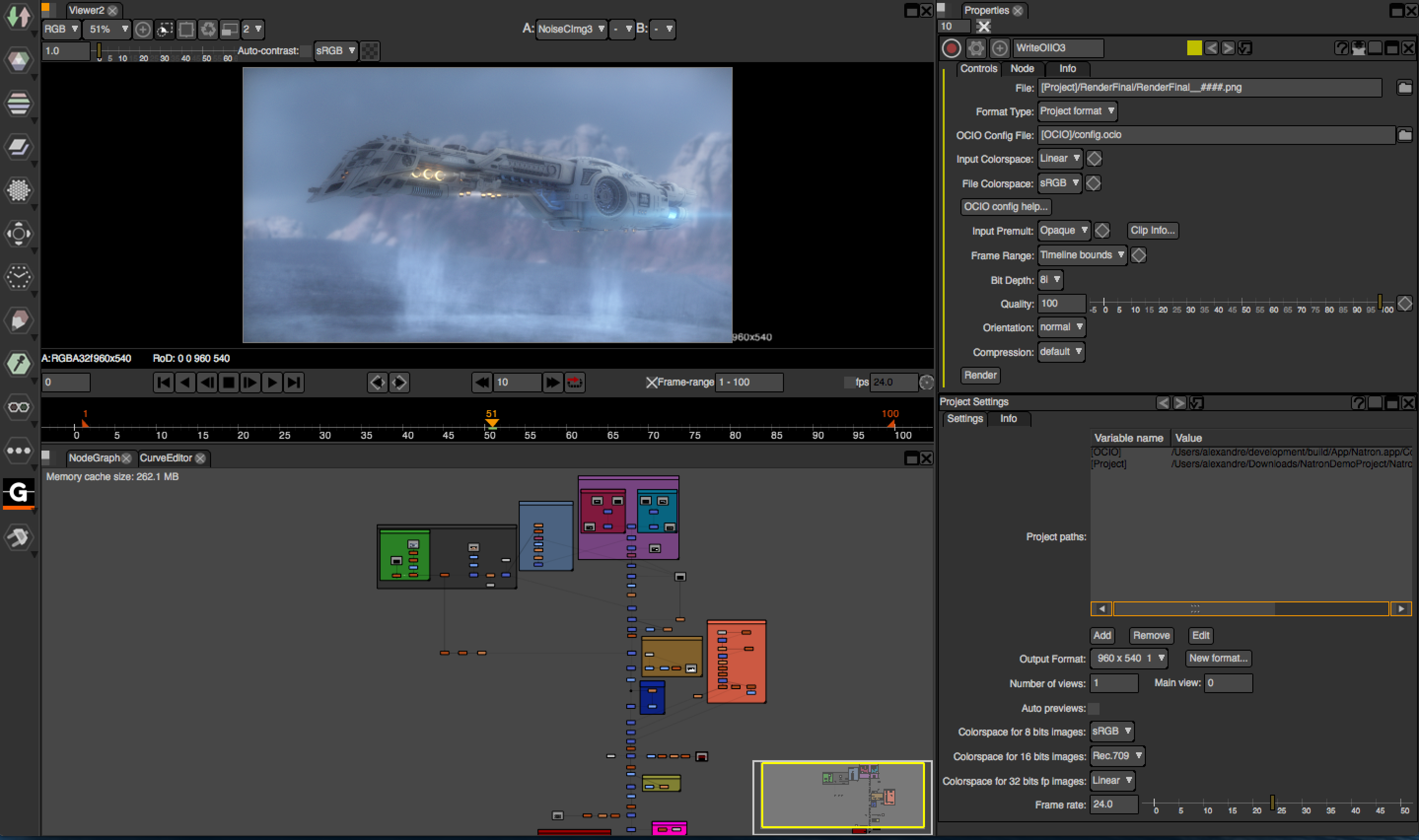 Natron 1.0 screenshot showing François "CoyHot" Grassard's sample project